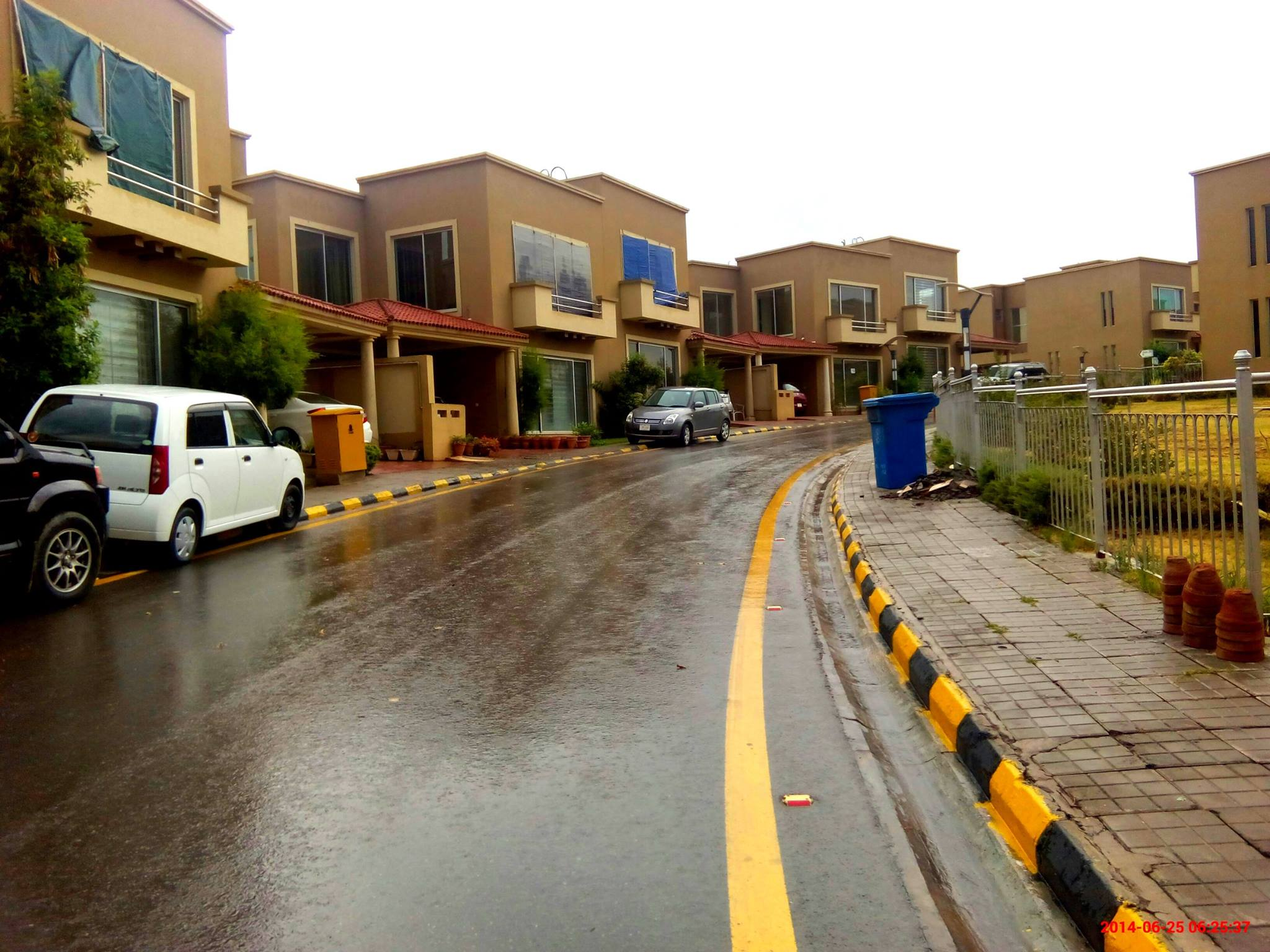 Villas in Bahria Town Rawalpindi